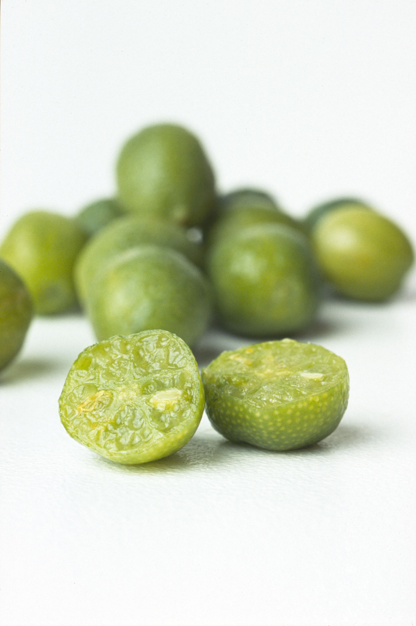 The Australian Outback Lime is a selection of the native desert lime, Citrus glauca. It is characterised by its upright habit, relatively large, flavoursome fruit, high yield, uniform ripening time, lack of thorns, and suitability for mechanical harvesting. The Australian Outback Lime was cultivated at the Merbein, Victoria site of CSIRO Plant Industry by Dr Steve Sykes.